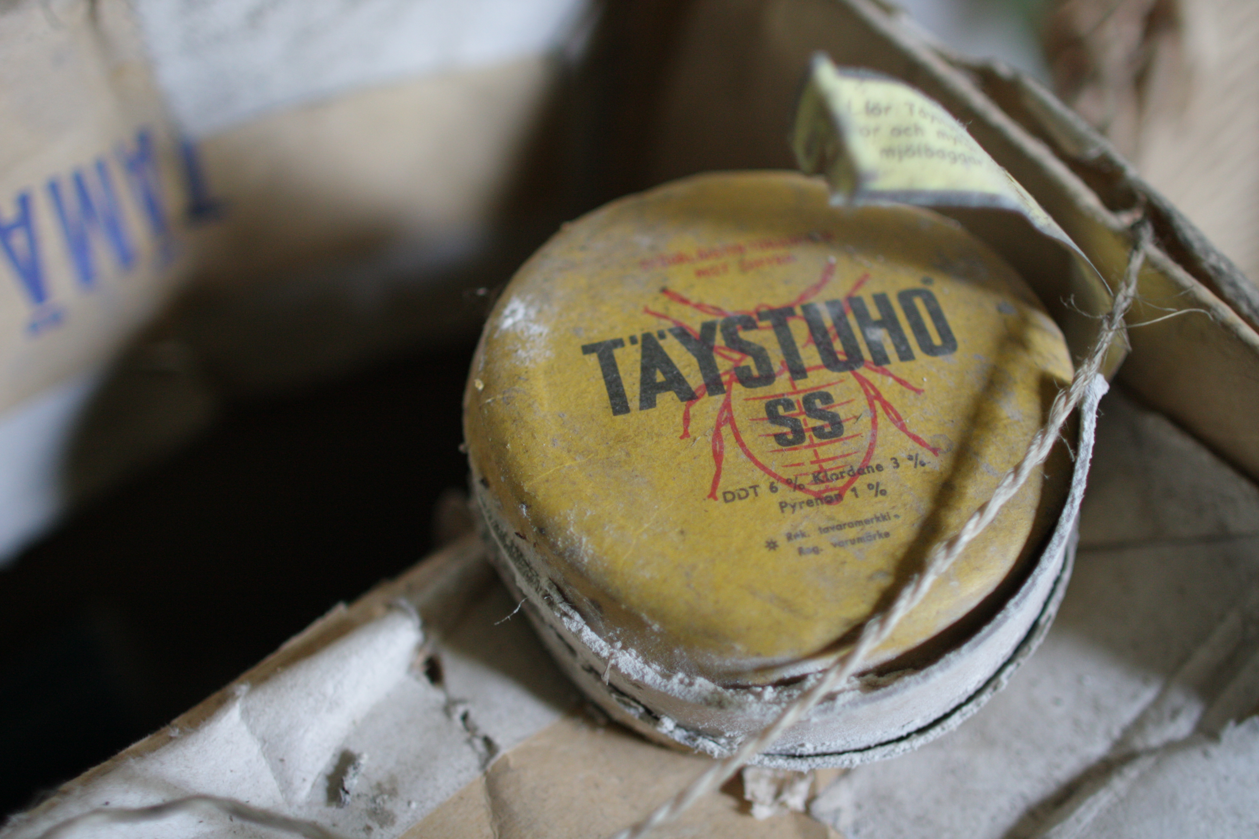 A small cardboard container of täystuho SS insecticide from Finland. Listed contents are DDT 6 %, Chlordane 3 %, Pyrenon 1 %